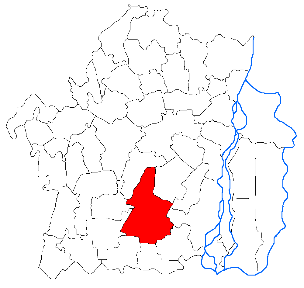 Limits of Town of Insuratei in Braila County